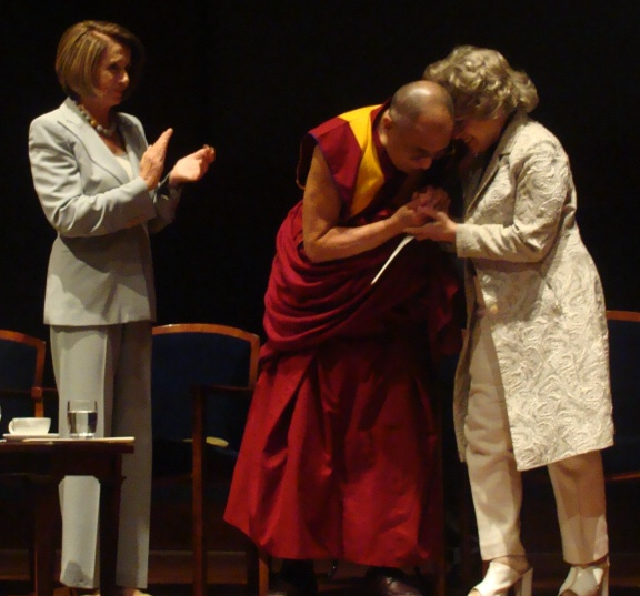 Speaker Pelosi presented the first Lantos Human Rights Prize to His Holiness the Dalai Lama this morning in the Capitol Visitor Center. Named for the late Congressman and human rights activist Tom Lantos, the Lantos Human Rights Prize is intended to raise awareness about human rights violations and honor the brave individuals who are committed to fighting for human rights throughout the world.